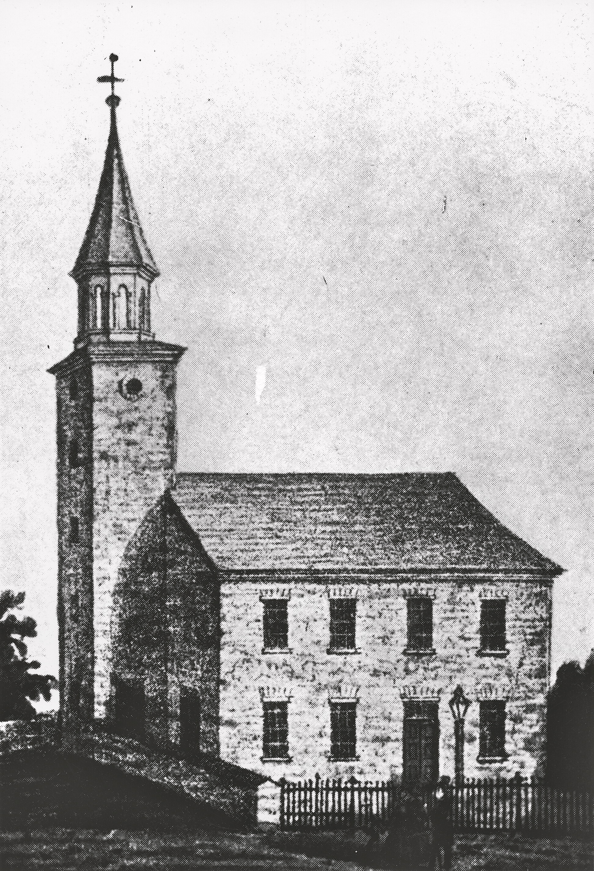 1774 Sketch of Zion Church as it originally appeared soon after construction.